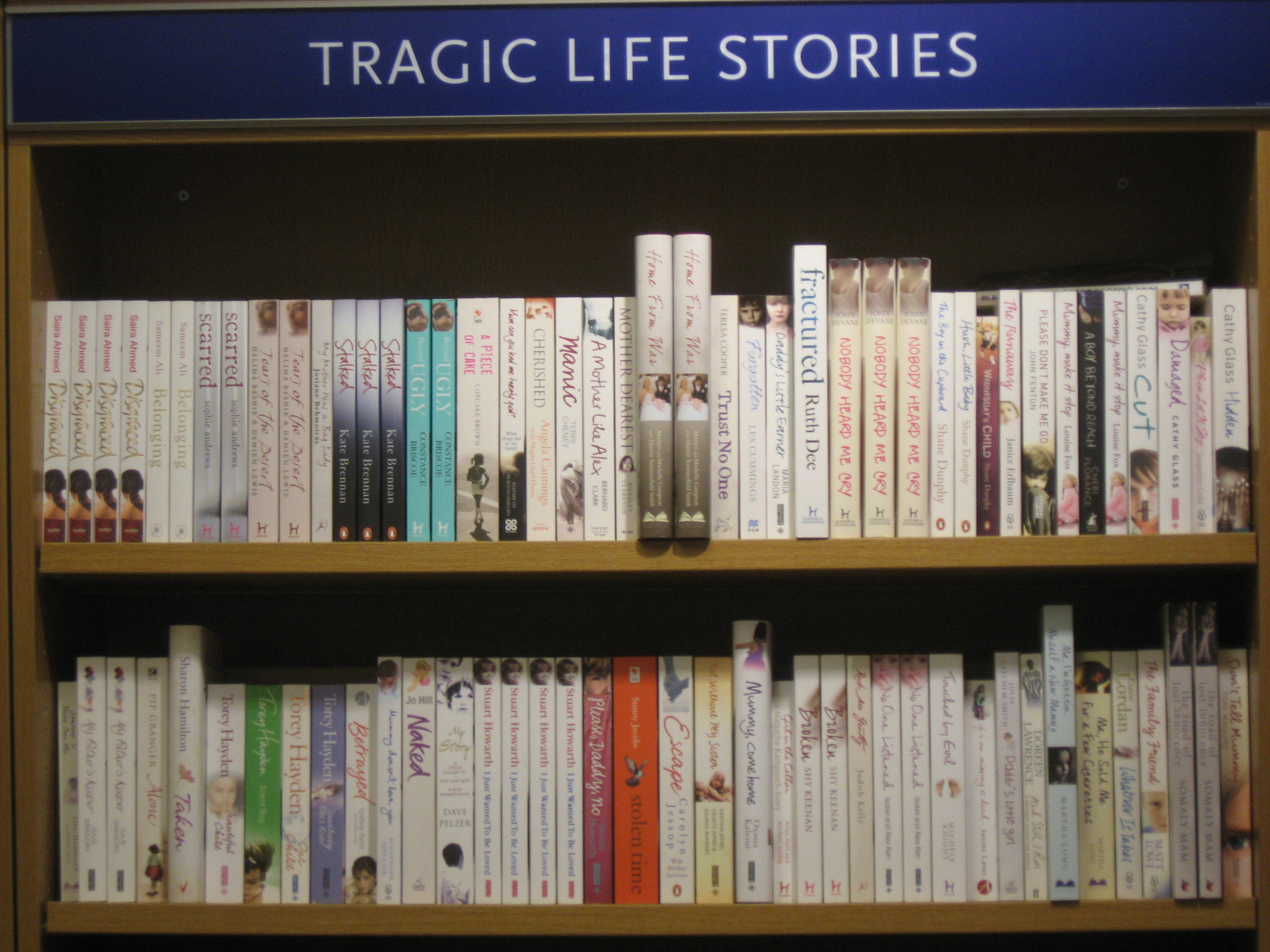 "Tragic Life Stories" bookshelf at W H Smith, Stratford-upon-Avon